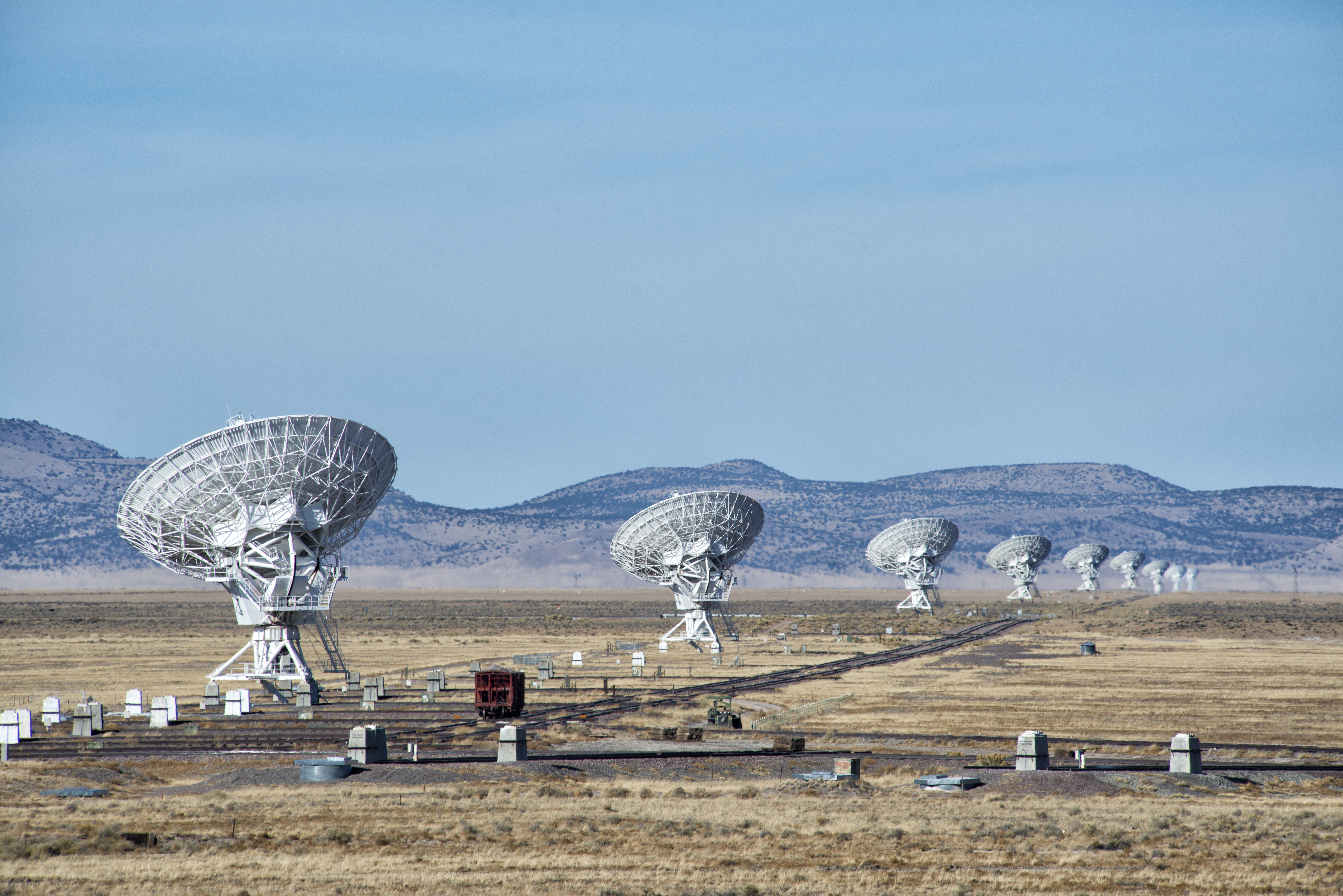 I found a brochure at the motel In Socorro about the Very Large Array, a national radiotelescope facility located about 45 miles west of town. I learned that they have guided tours on the first Saturday of each month. Since it was a Saturday morning, the first in December, I decided to drive out and take the tour. It turned out not to be very interesting to me. The array consists of three arms of parabolic reflectors, with nine dishes in each arm. They are moveable along railroad tracks. The overall size of the array determines the angular resolution of the telescope. The facility has been in operation since the '70s and probably is outdated. They are building a larger and better-in-every-way facility in the Atacama Desert of northern Chile. I have seen a time-lapse video taken at night of this array of dishes. You can see them turn as they track their target in the sky, following the star trails. I would like to go back some night and try to get that.